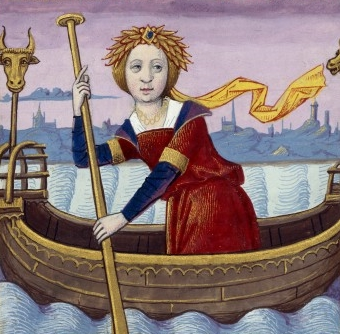 The goddess Isis.